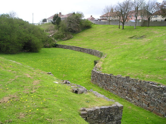 Amphitheatre Moridunum Carmarthen was an important town in Roman times and the Romans built this amphitheatre for the purpose of holding gladiatorial shows and displays of wild beasts. Only part of the site is visible here because trees and bushes have been allowed to encroach on the far side. The local authority keeps the grass mown but does not provide any information for visitors.